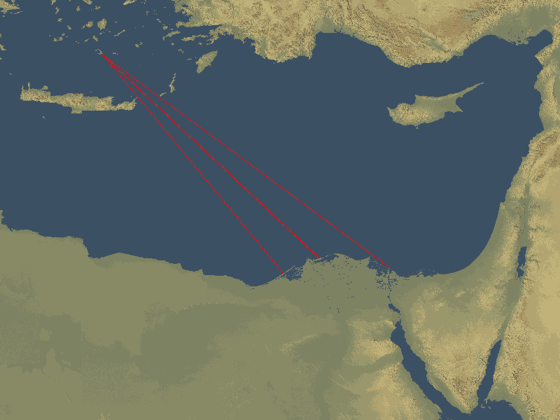 The Theran Eruption: The image shows that tsunami waves caused by Thera's eruption in 1626 BC would have hit directly the Nile delta region having travelled c. 730 km